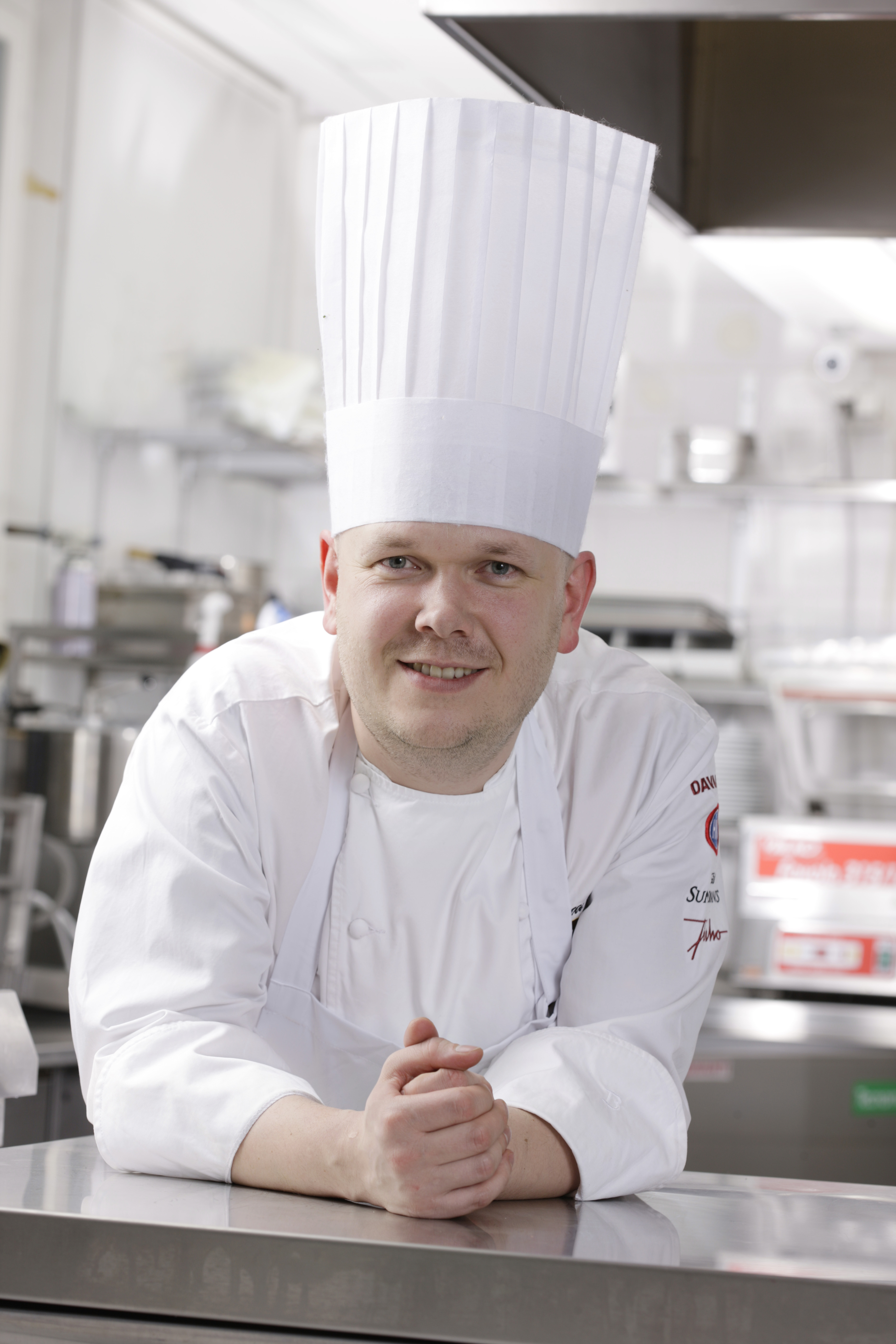 Chef Matti Jämsén from Finland.